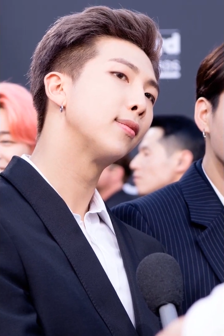 RM at the 2019 Billboard Music Awards, 1 May 2019